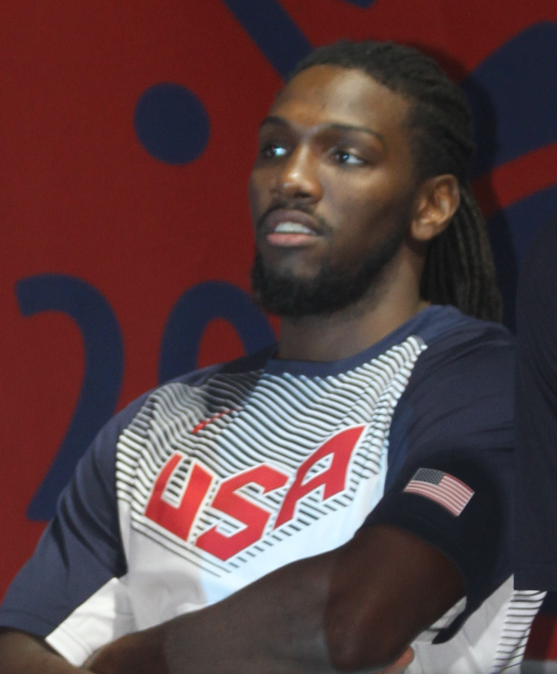 Kenneth Faried at 2014 World Basketball Festival at 63rd Street Beach in Chicago